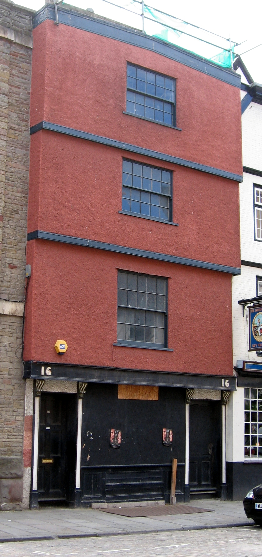 Number 16 King Street, Bristol, UK. Grade II* listed.[1]